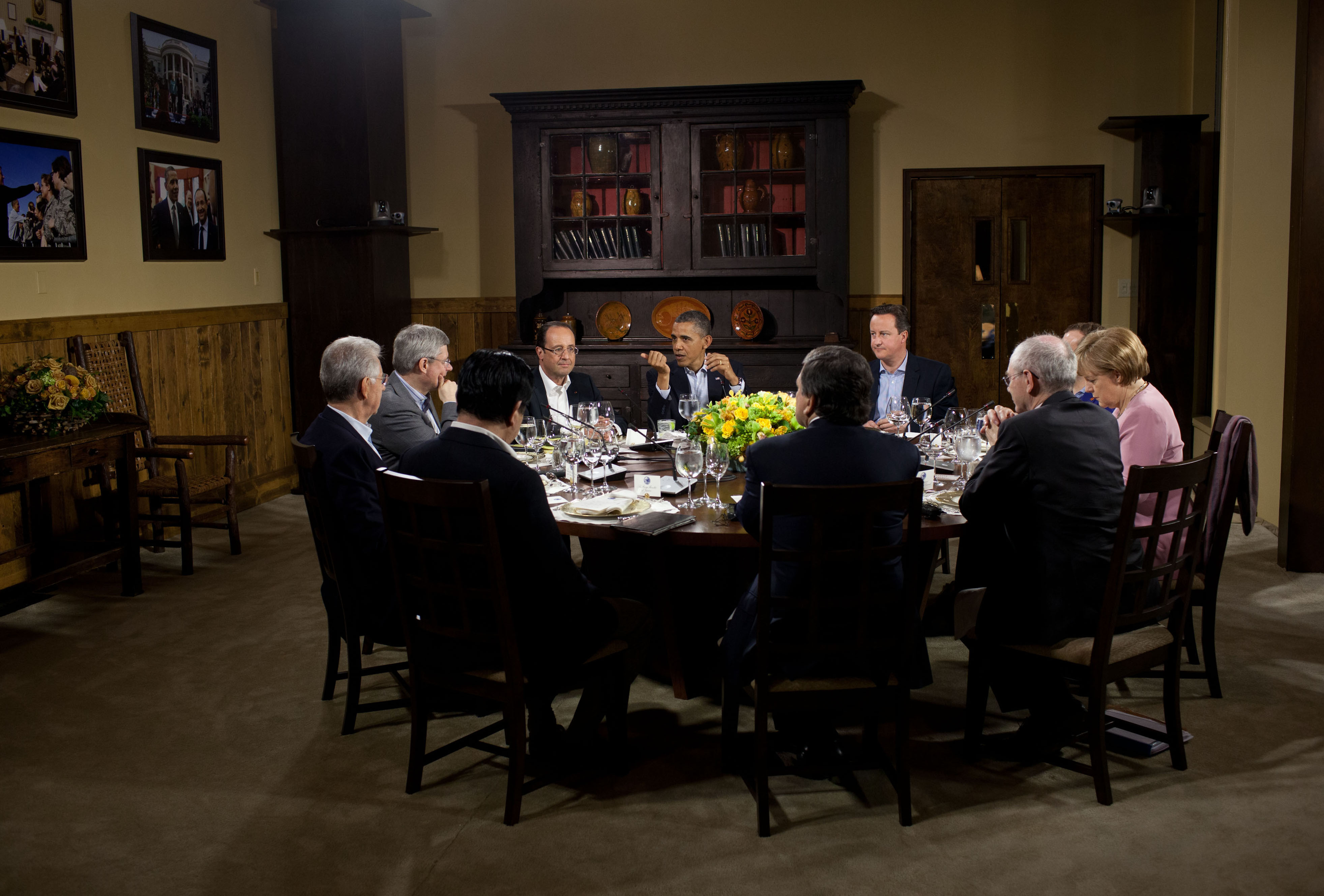 President Barack Obama hosts a working dinner in Laurel Cabin during the G8 Summit at Camp David, Md., May 18, 2012. Seated clockwise from the President are: Prime Minister David Cameron of the United Kingdom, Prime Minister Dmitry Medvedev of Russia, Chancellor Angela Merkel of Germany, Herman Van Rompuy, President of the European Council, José Manuel Barroso, President of the European Commission, Prime Minister Yoshihiko Noda of Japan, Prime Minister Mario Monti of Italy, Prime Minister Stephen Harper of Canada, and President François Hollande of France.